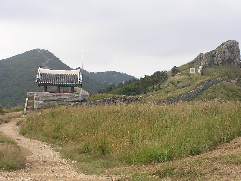 East Gate with Geumjeong Fortress in Busan, South Korea